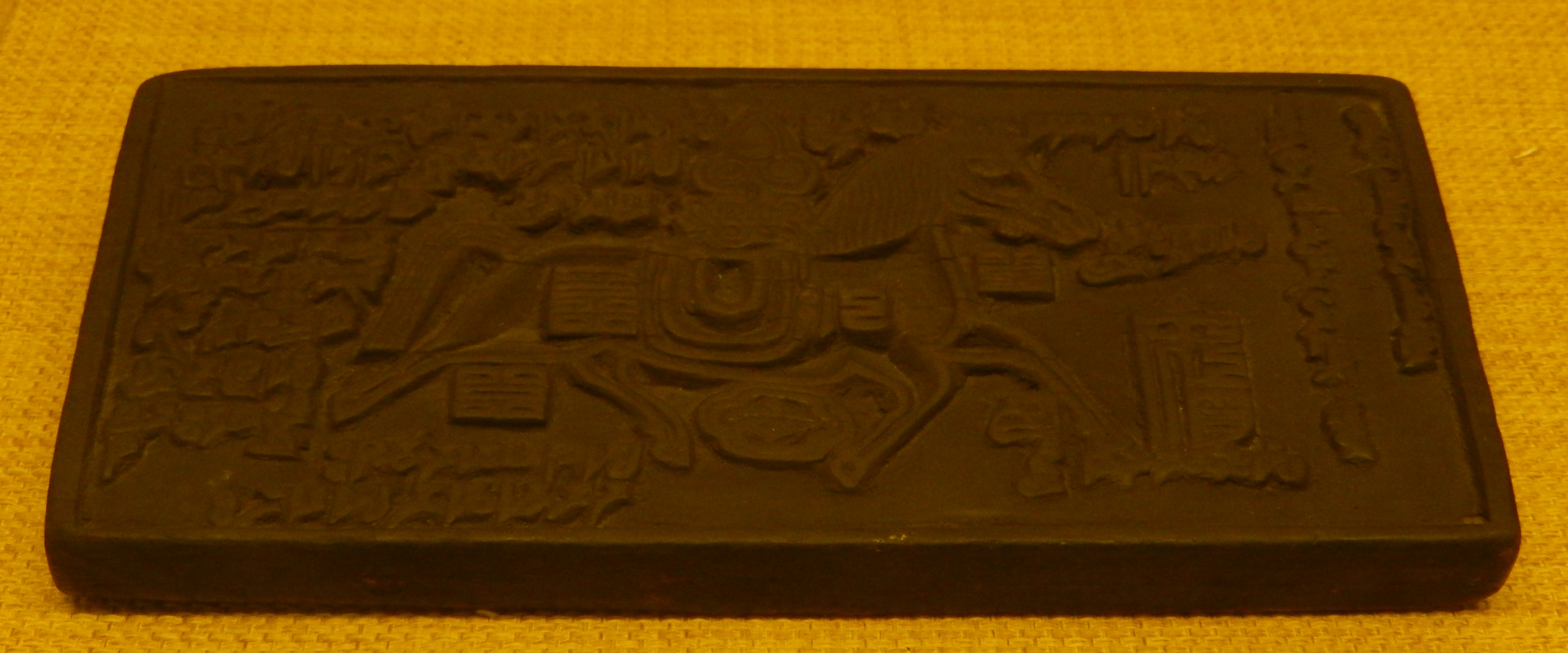 Wooden printing block for a Buddhist prayer flag at the Nationalities Museum of the Inner Mongolia University (内蒙古大学民族博物馆), Hohhot, Inner Mongolia, China.